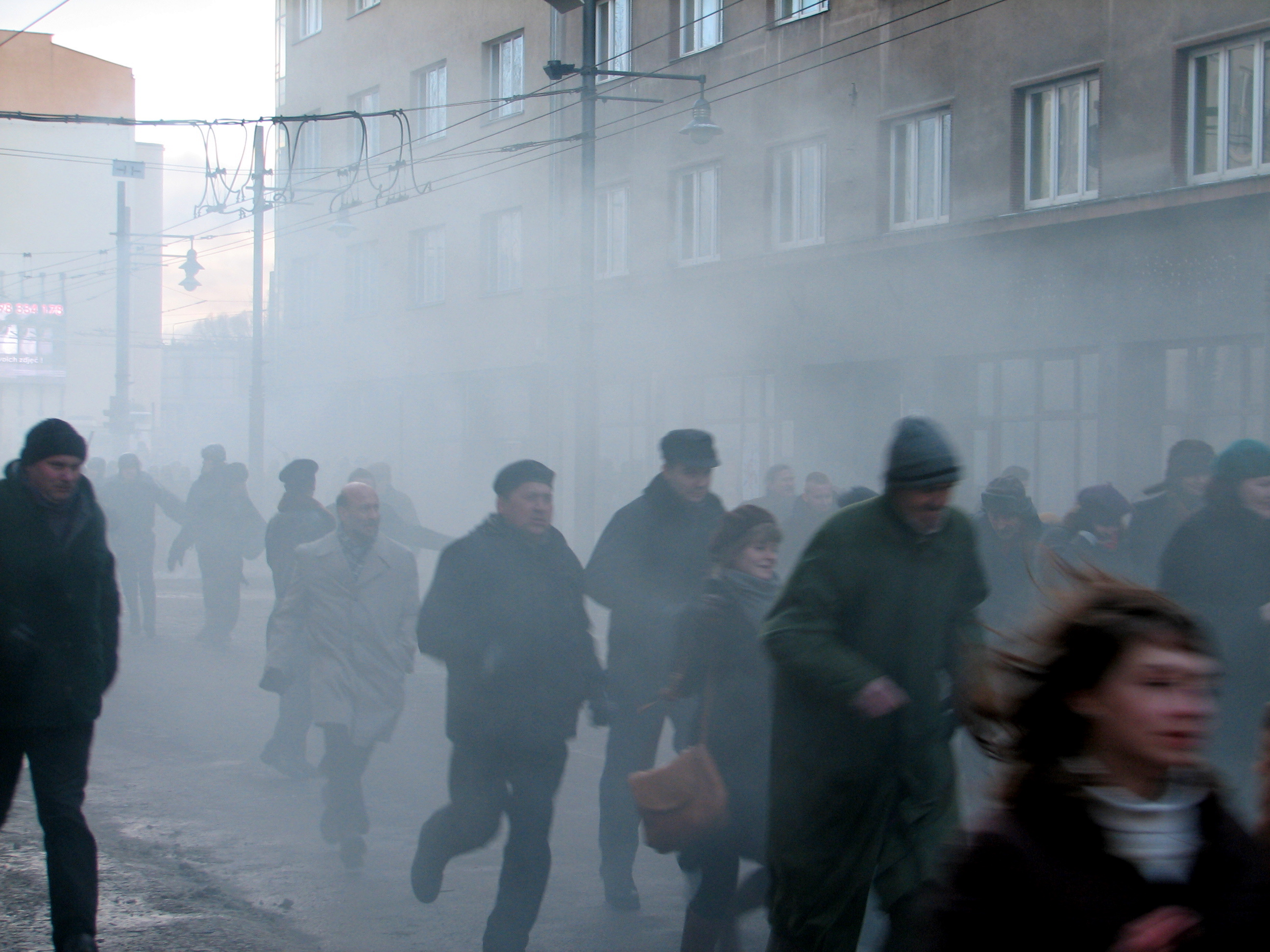 Filming of "Black Thursday" at intersection of ulica Świętojańska and Aleja Józefa Piłsudskiego in Gdynia. People on this picture are actors, extras, and film crew. "Black Thursday" is a film about Polish 1970 protests.